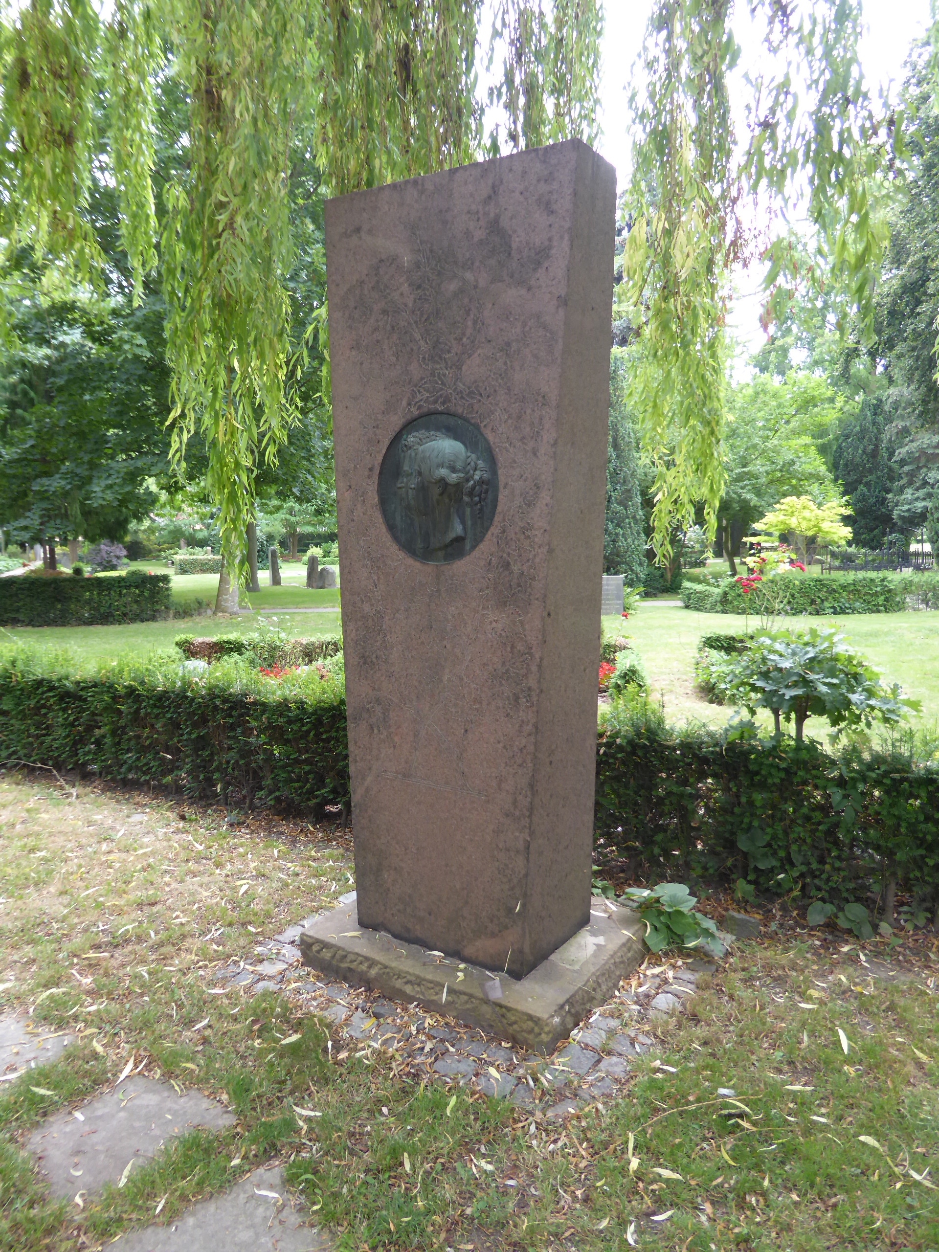 Grave of the government minister Orla Lehmann (1810-1870) at Holmens Kirkegård in Østerbro in Copenhagen.